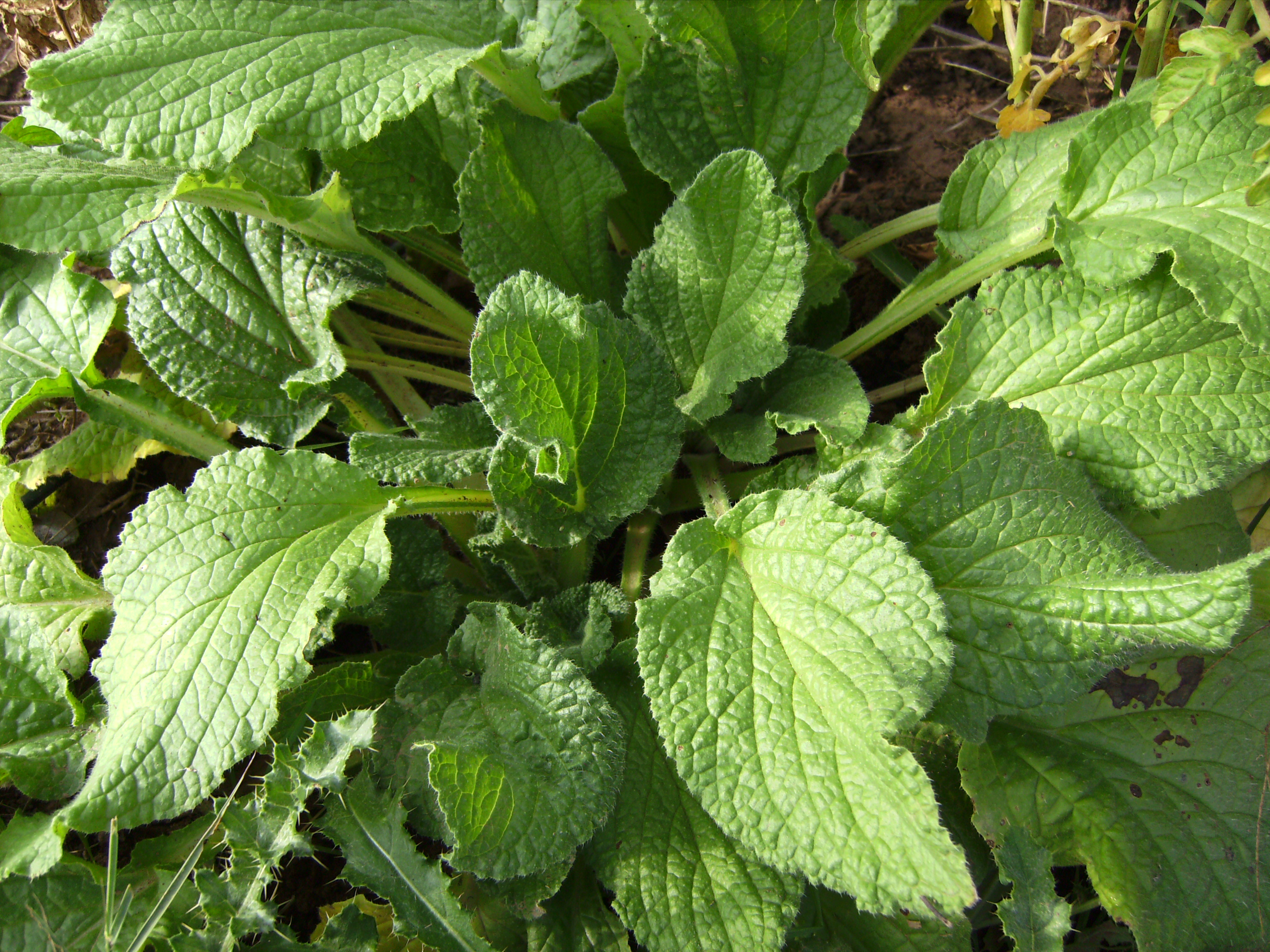 Borago officinalis ready to crop, Castelltallat, Catalonia